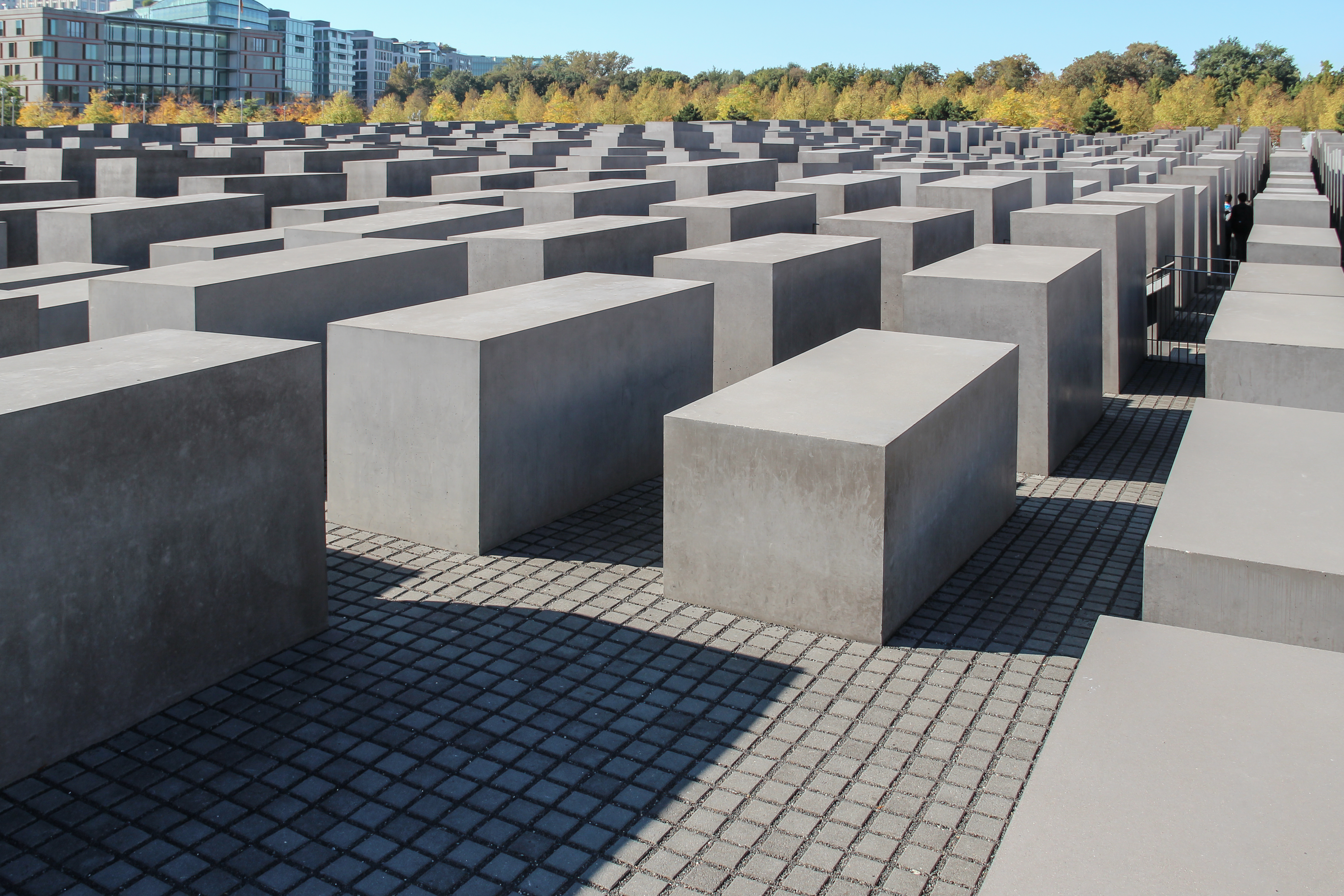 Memorial to the Murdered Jews of Europe, Berlin, Germany Sculpture TitleDenkmal für die ermordeten Juden EuropasArtistPeter EisenmanDate10 May 2005